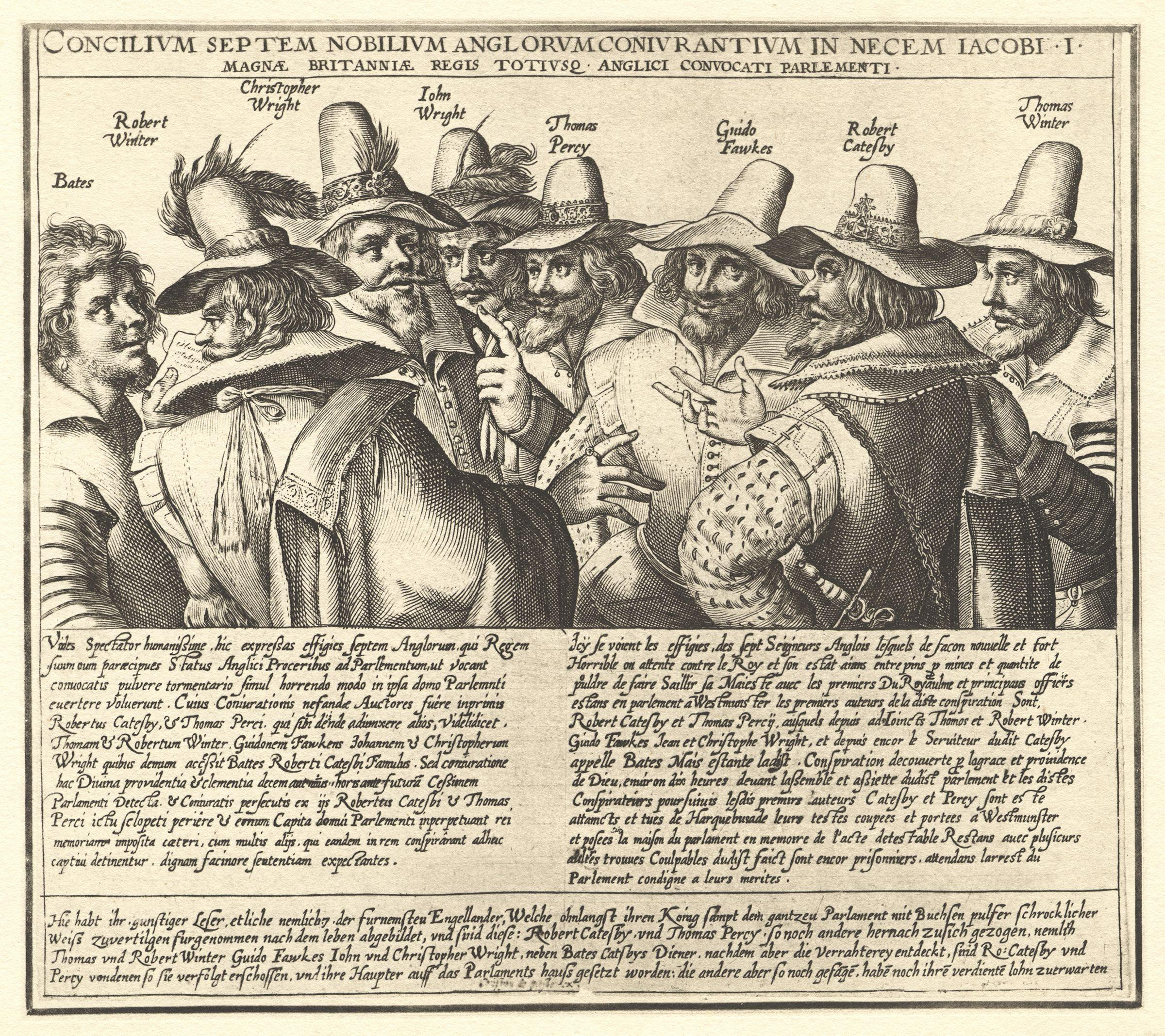 The Gunpowder Plot Conspirators, 1605, by unknown artist. All images in this batch have an unknown author, but there is strong evidence it was first published before 1923 (based mainly on the NPG's estimated date of the work).